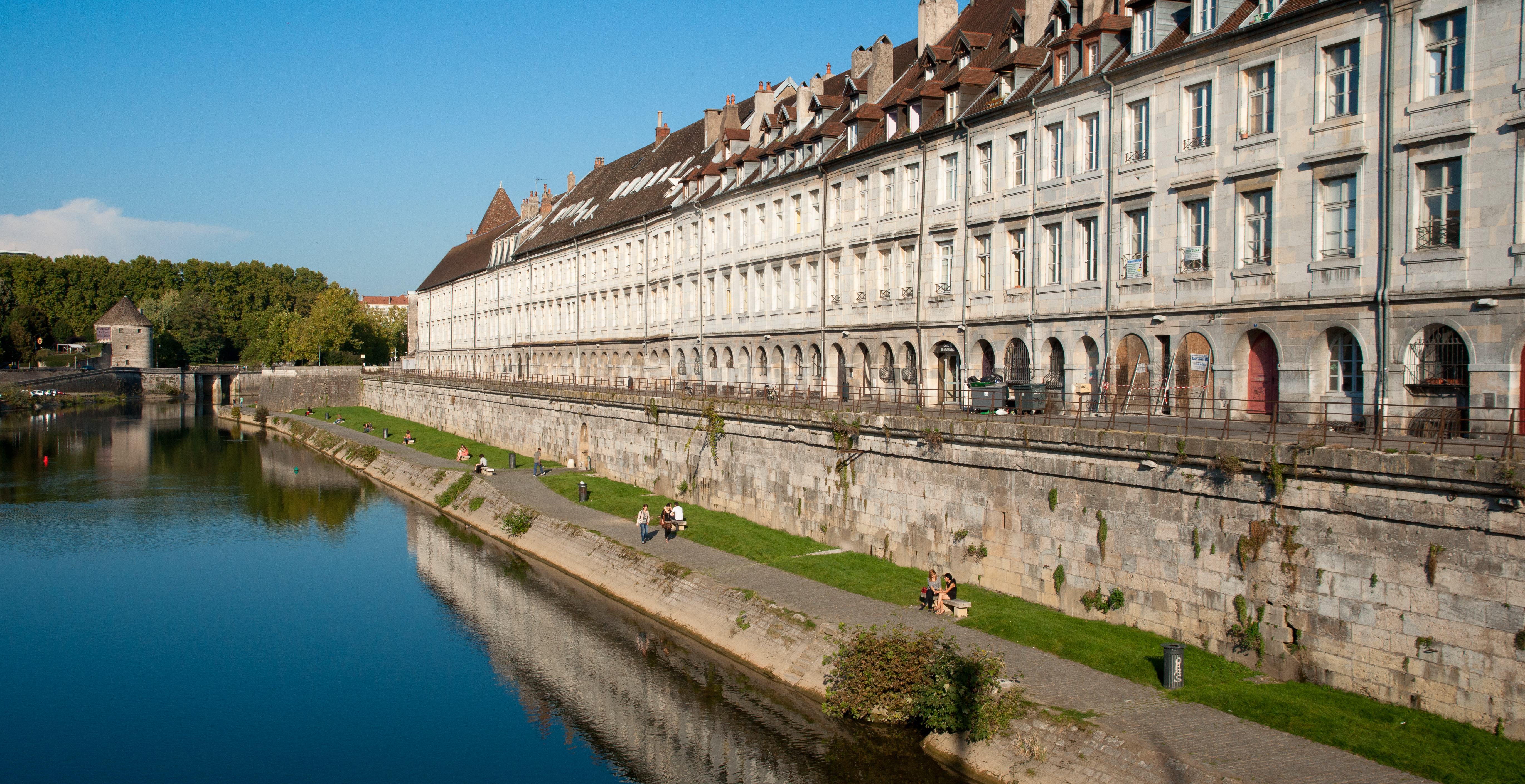 Quai Vauban in Besançon, french department of Doubs. Few buildings monuments historiques.